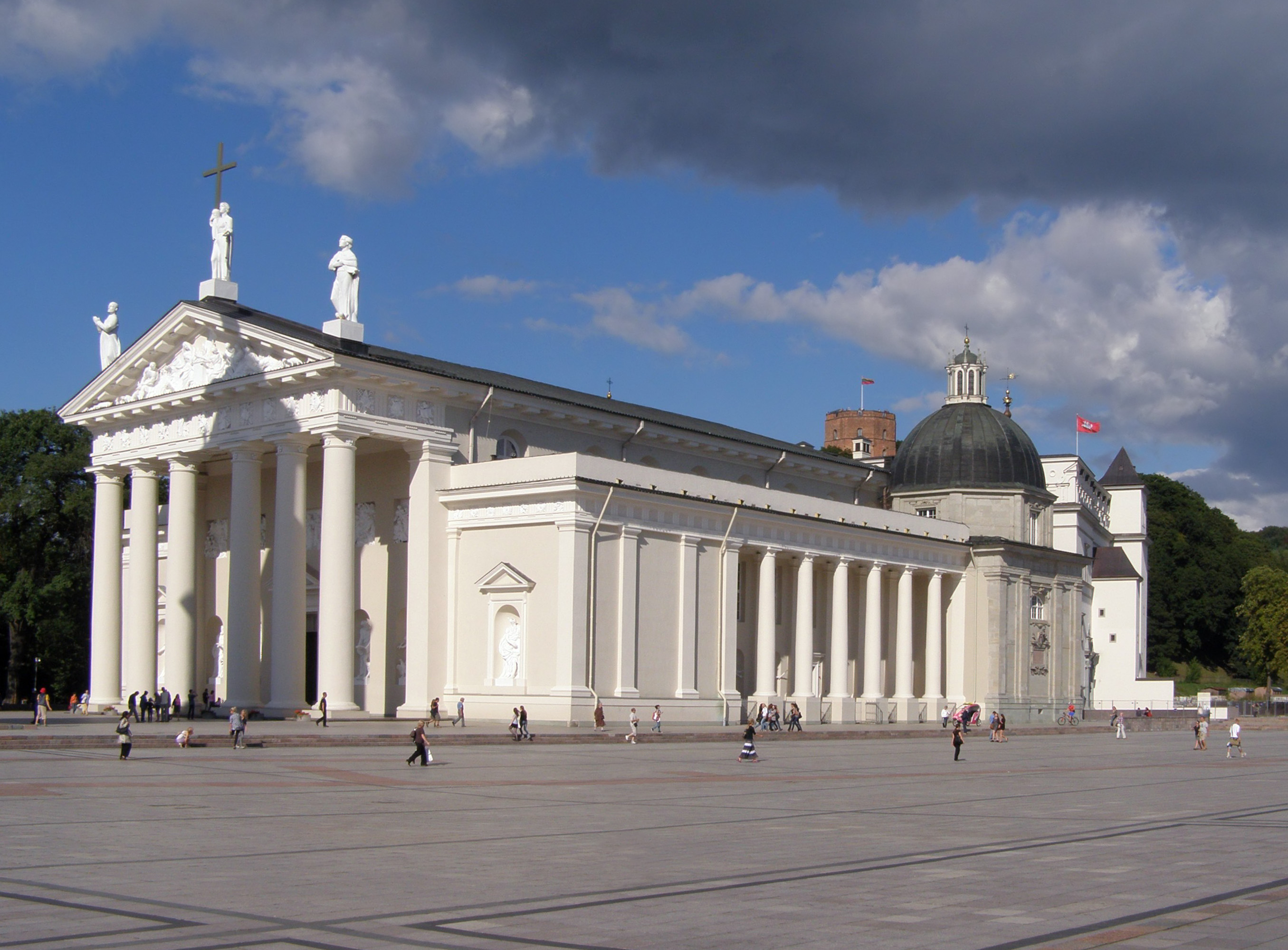 Vilnius Cathedral